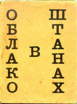 Cover of the 2nd edition of A Cloud in Trousers by Vladimir Mayakovsky